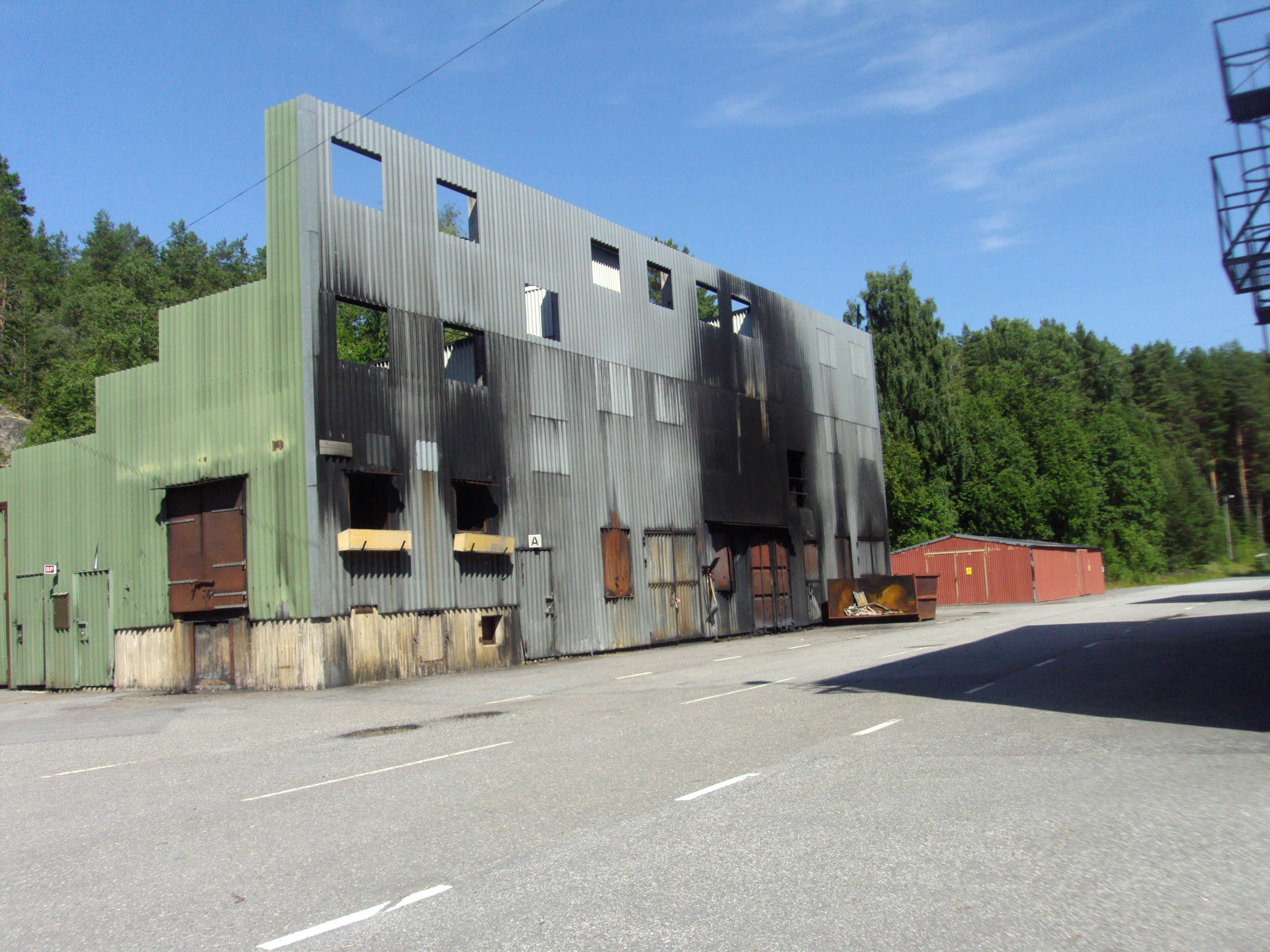 Training spot for fire department. Swedish Civil Contingencies Agency